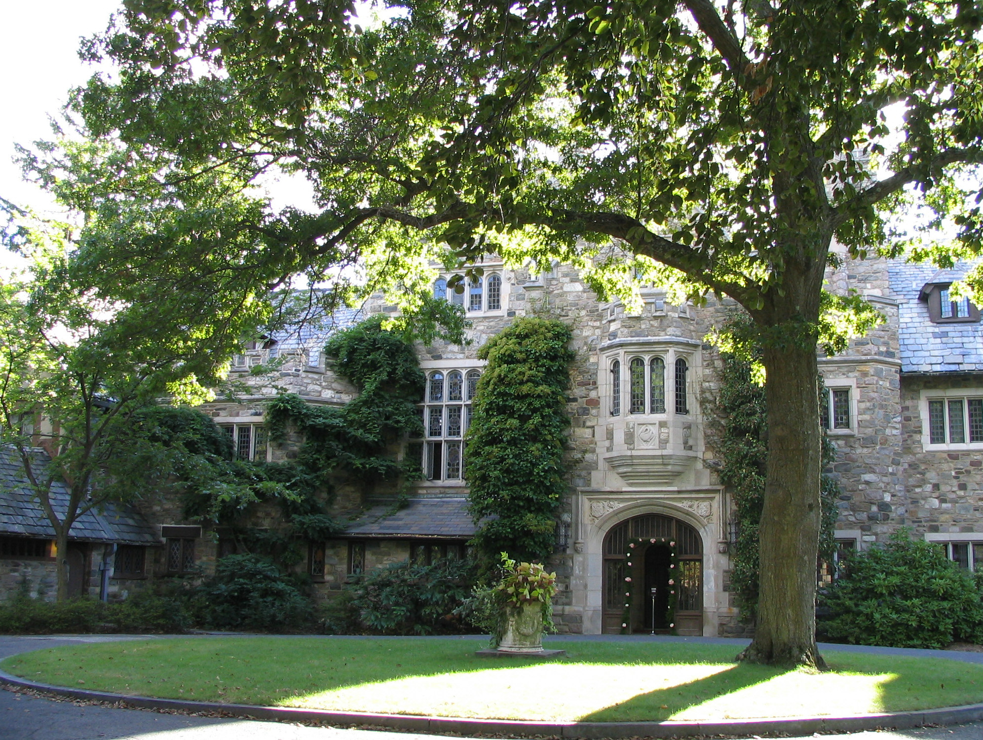 Skylands Manor in Ringwood State Park, New Jersey, USA. 18 September, 2005.